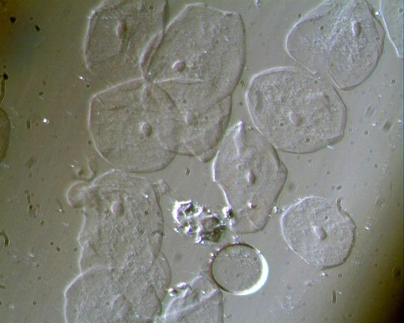 Mundschleimhautzellen mit Kreutzblende